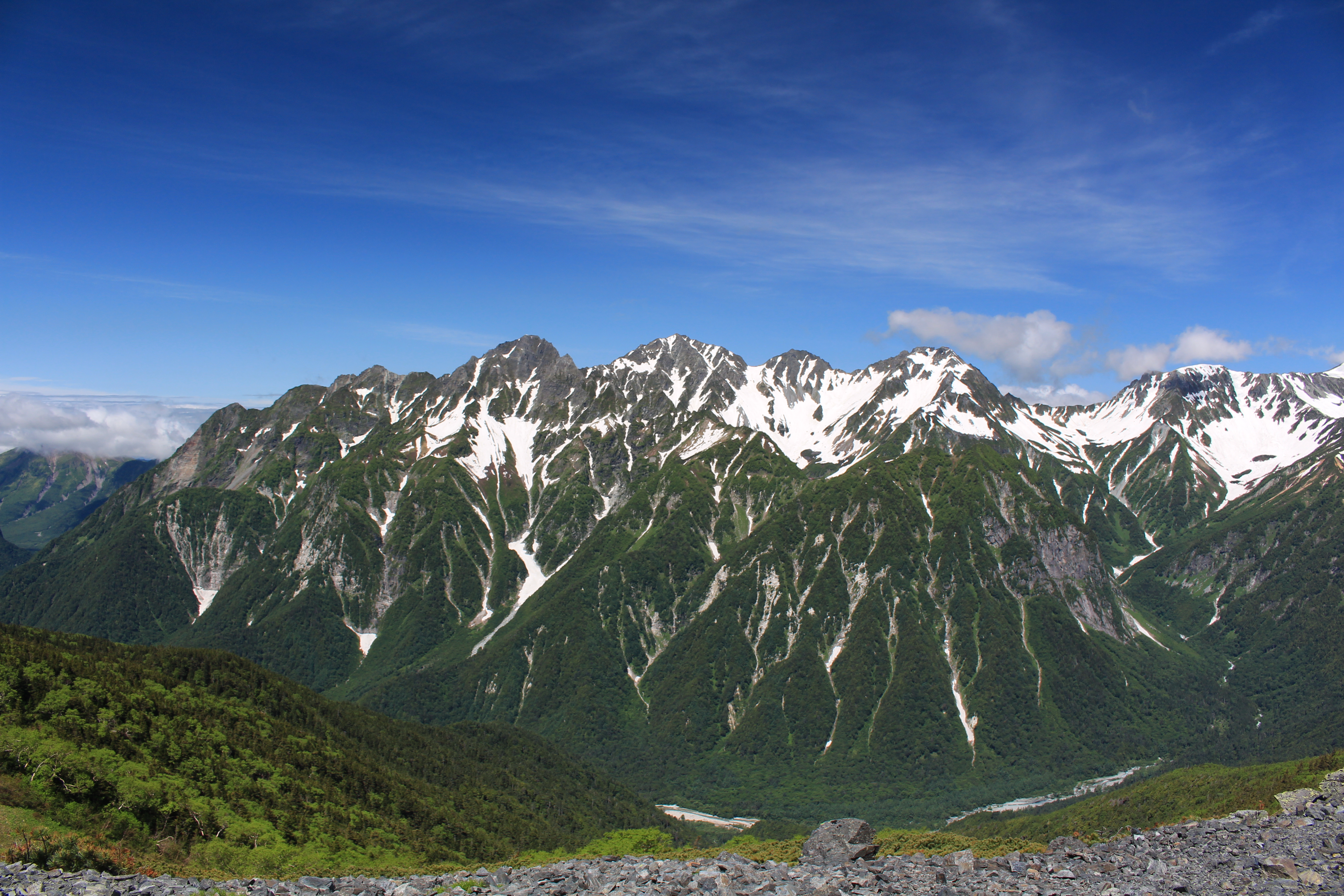 Hotaka Mountains (Mount Myōjin - Mount Moehotaka - Mount Okuhotaka - Mount Karasawa - Mount Kitahotaka) and Mount Minami seen from Mount Chō in Hida Mountains, Japan.